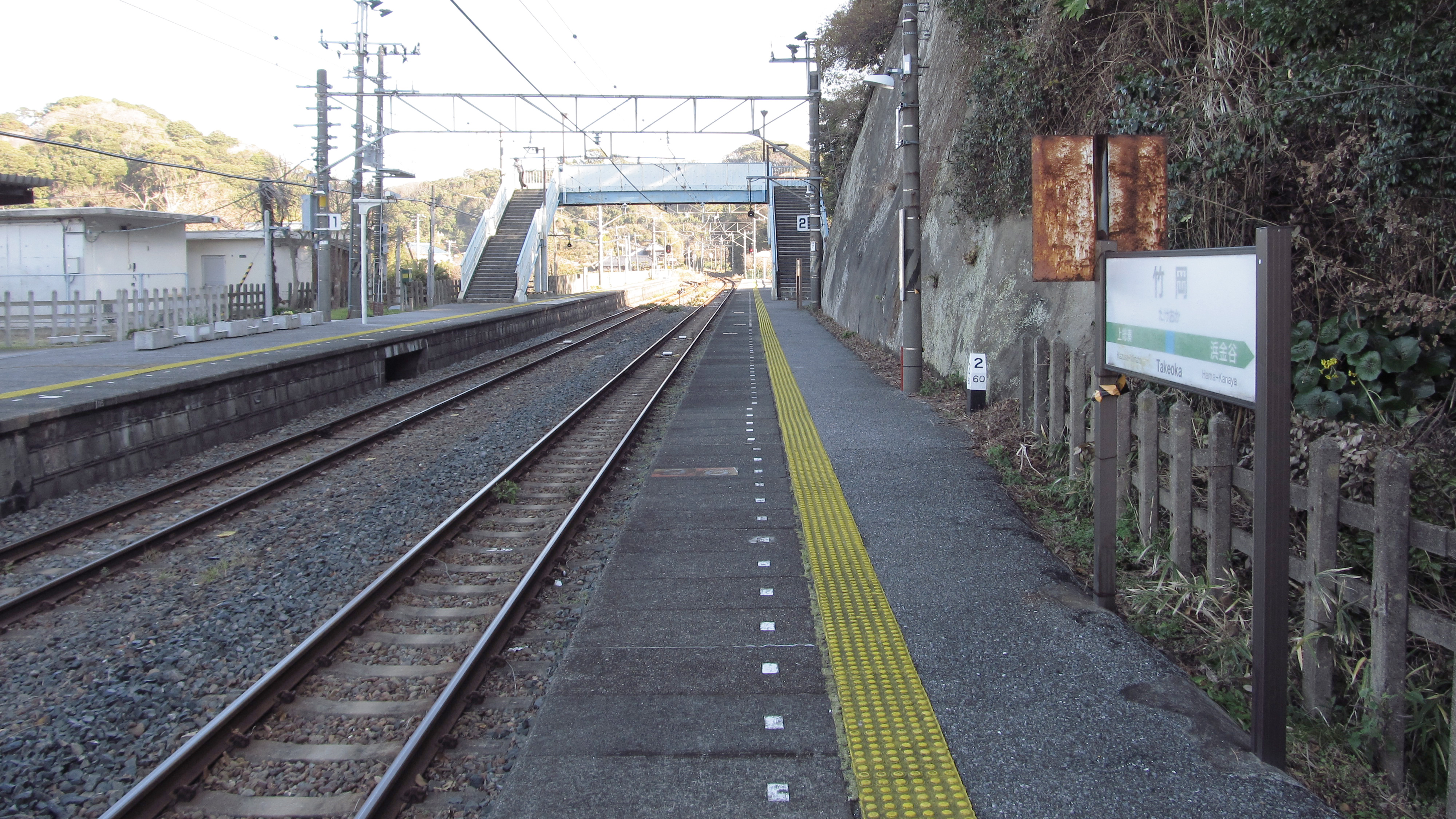 The platforms at Takeoka Station on the Uchibō Line in Futtsu city, Chiba prefecture, Japan